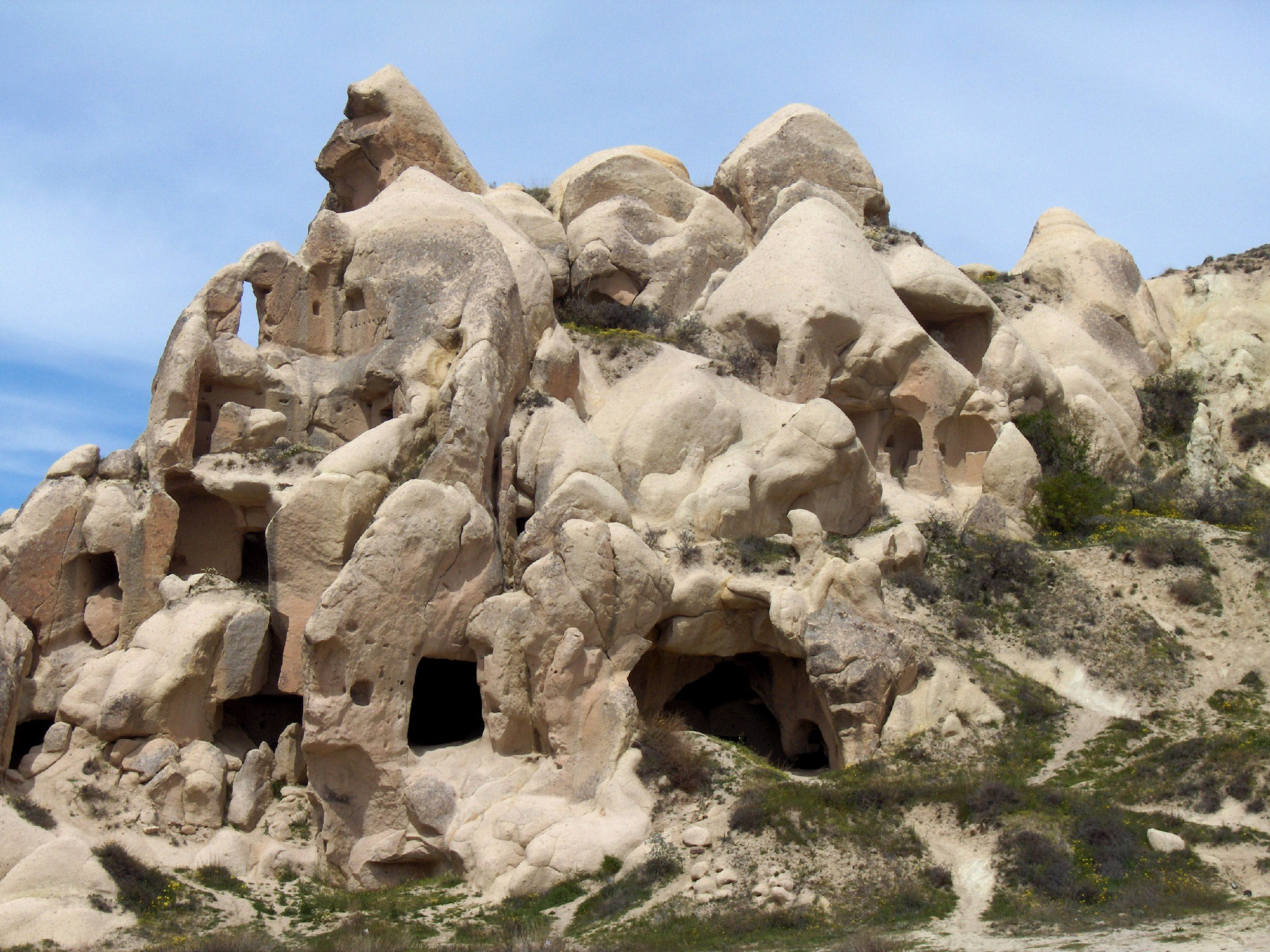 Göreme valley open air museum; Cappadocia, Turkey